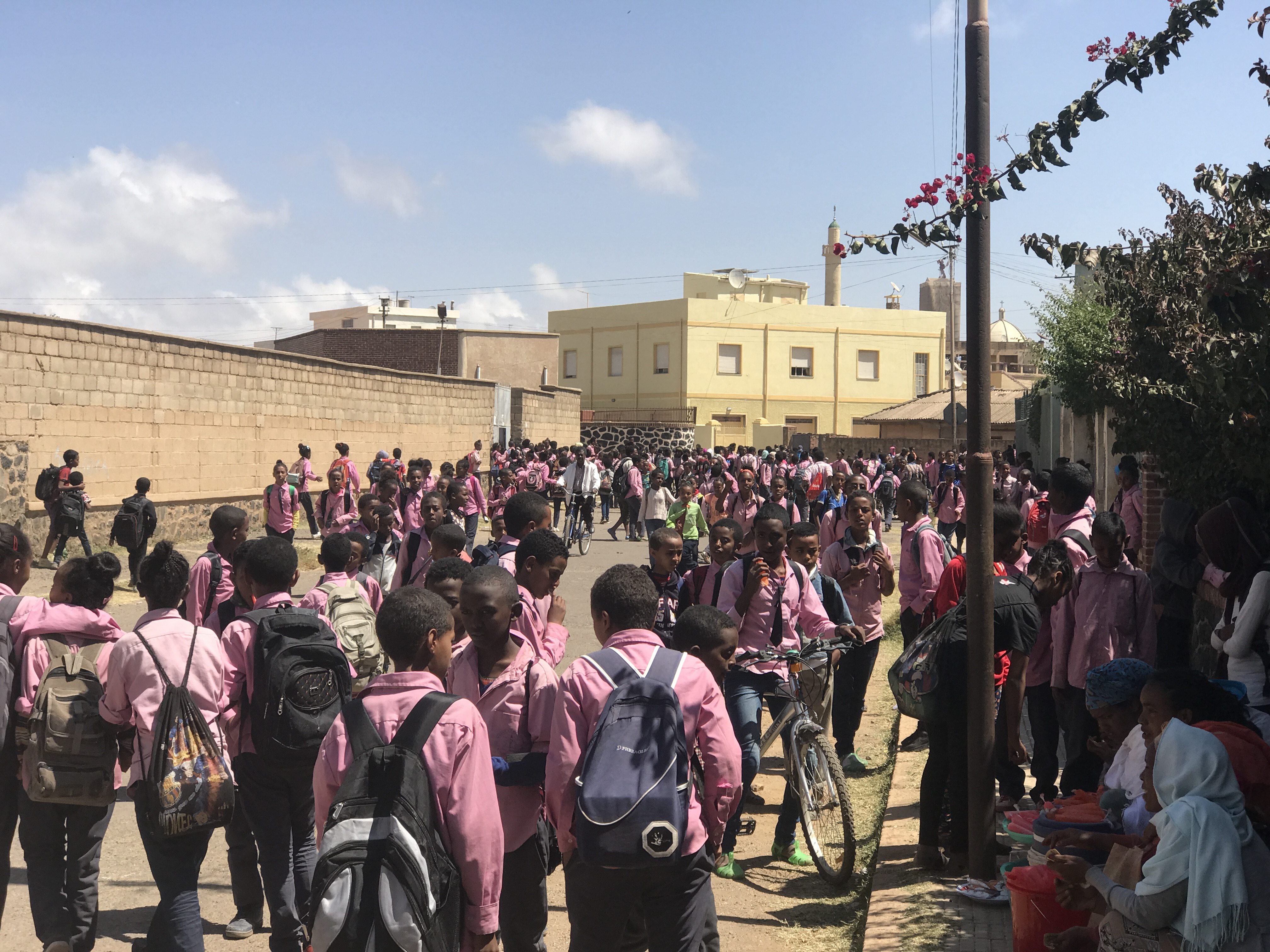 This is an image of "African people at work" from Eritrea